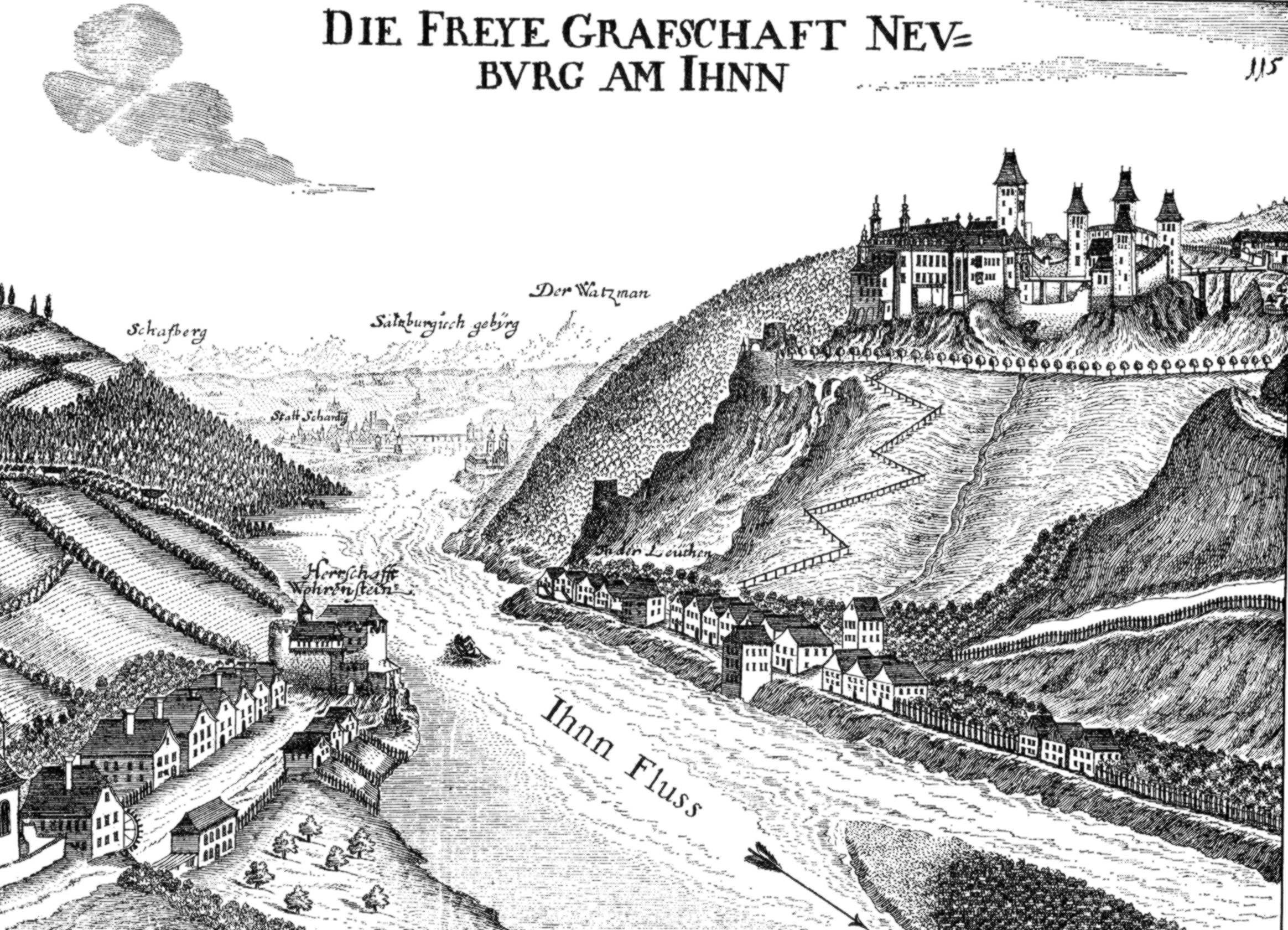 Picture of the imperial county of Neuburg in 1674.